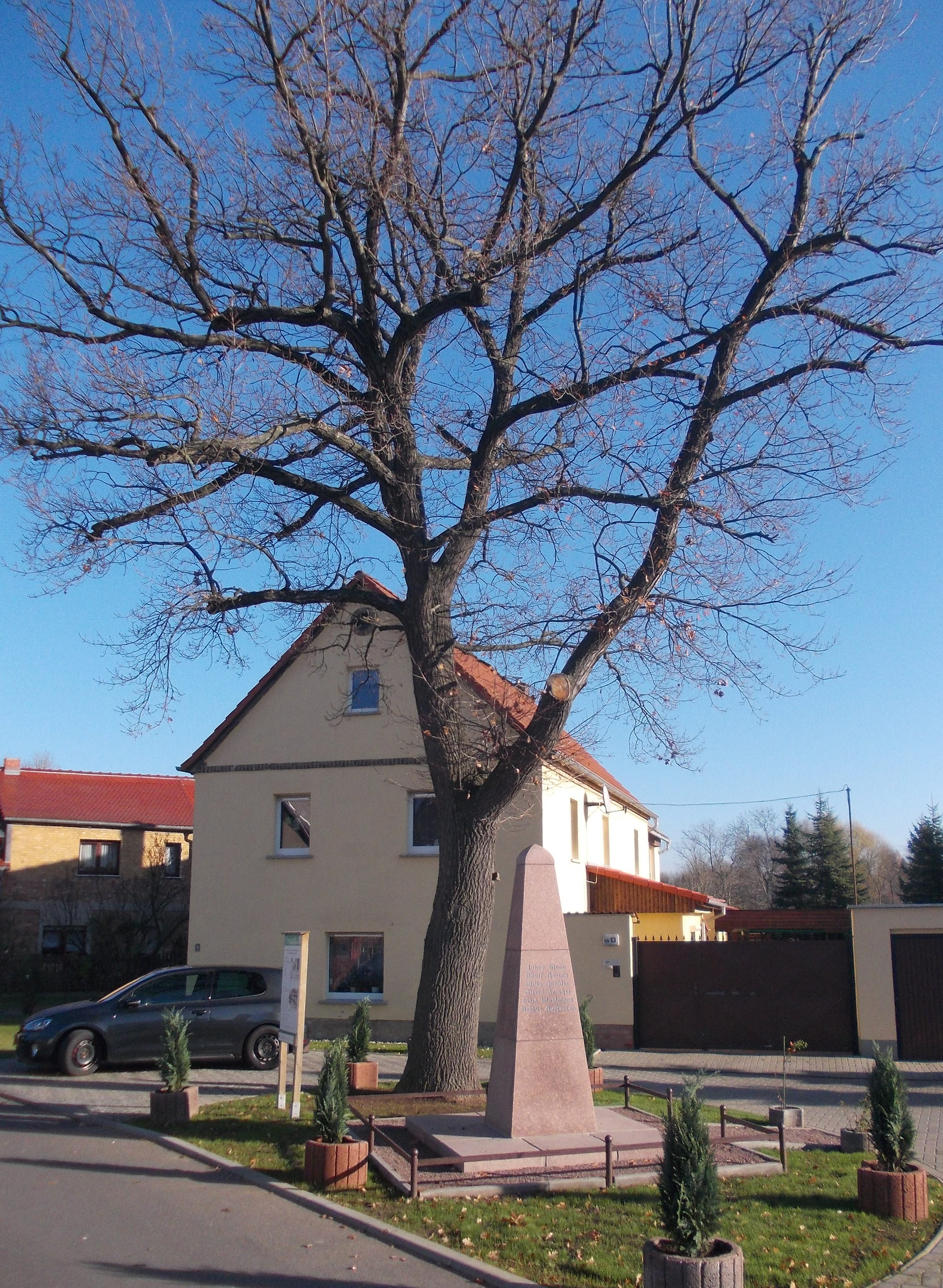 World War I memorial in Reipisch (Braunsbedra, district: Saalekreis, Saxony-Anhalt)